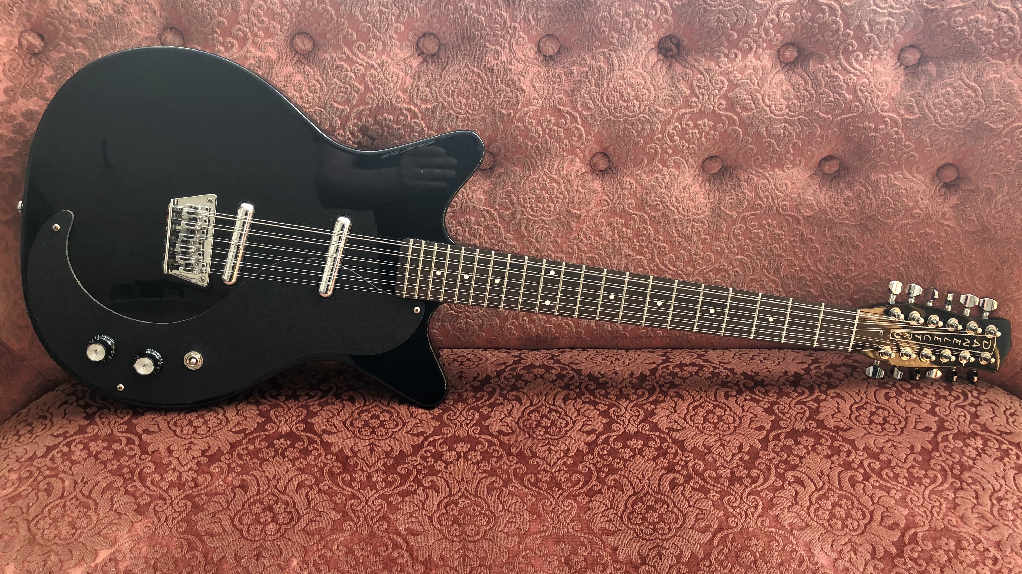 Danelectro DC59 12-string guitar with custom pick guard